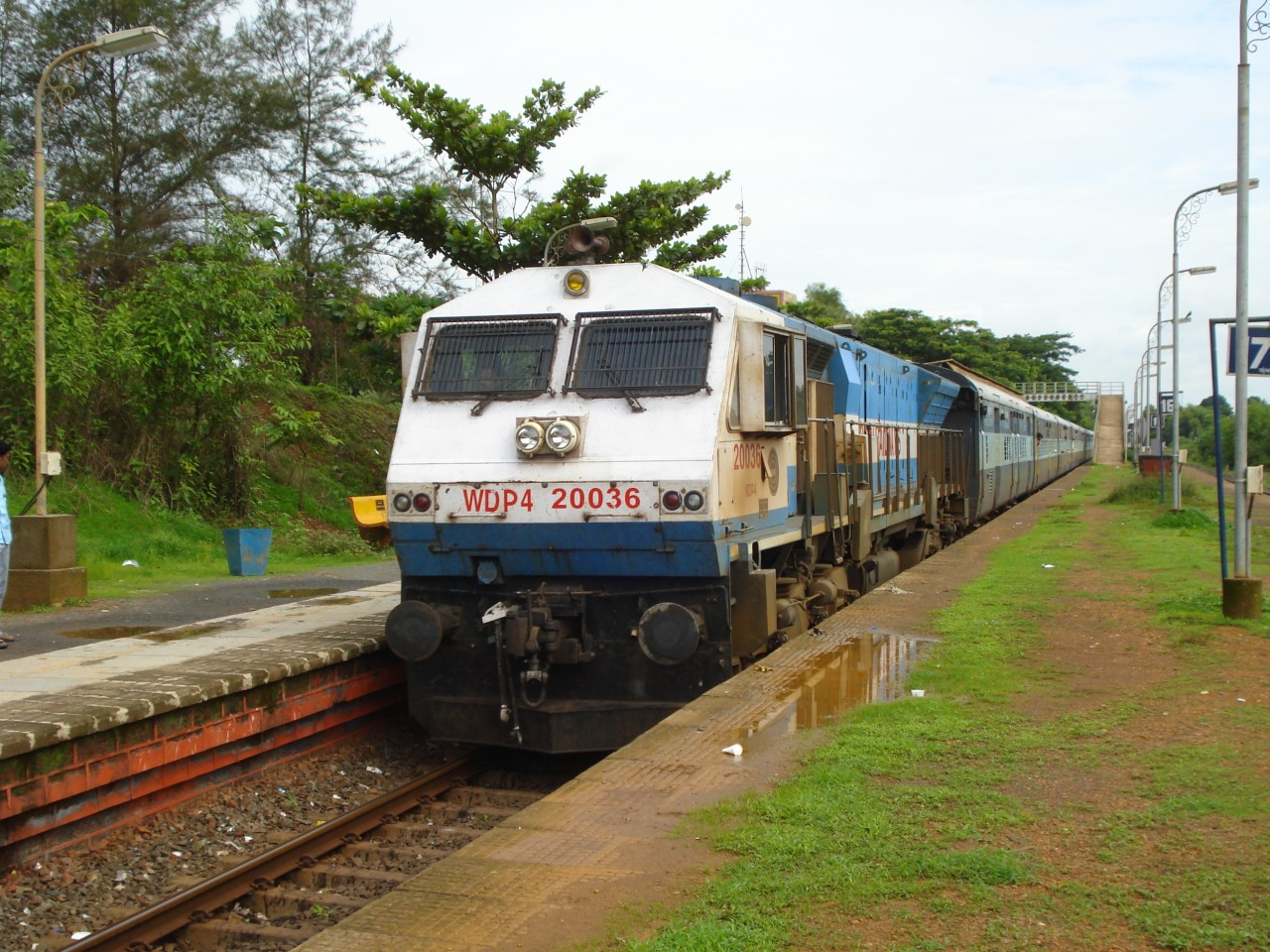 Mumbai Madgaon Konkan kanya exp arrives at Sawantwadi railway station.